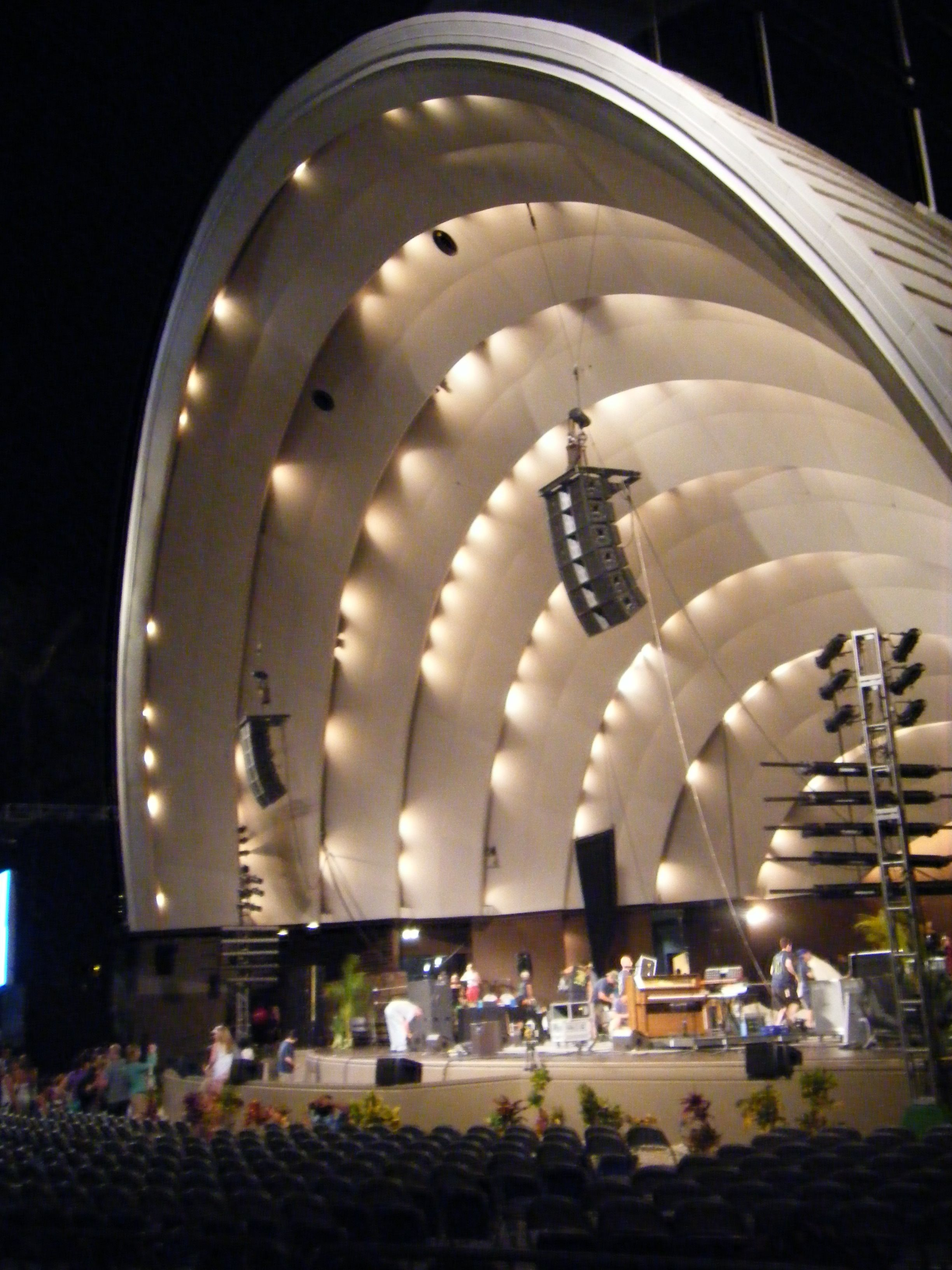 Waikiki Shell, Kapiolani Park, Honolulu, Hawaii